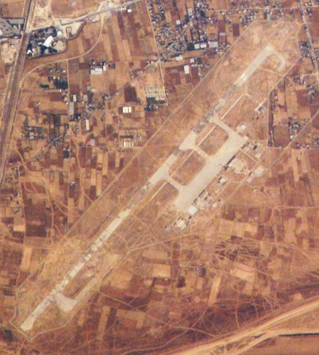 Satellite photo of Gaza International Airport Jassir Arafat by NASA